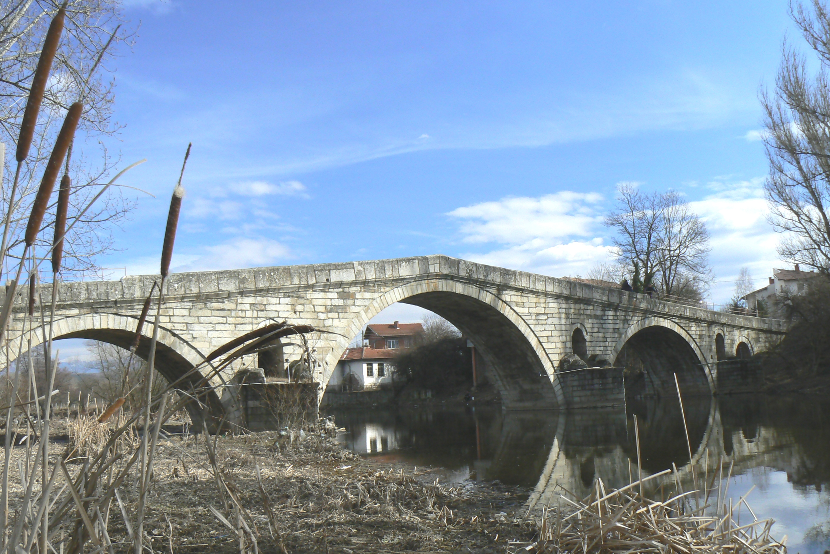 Kadin most (Kadin bridge) in village Nevestino, Kyustendil District, Bulgaria